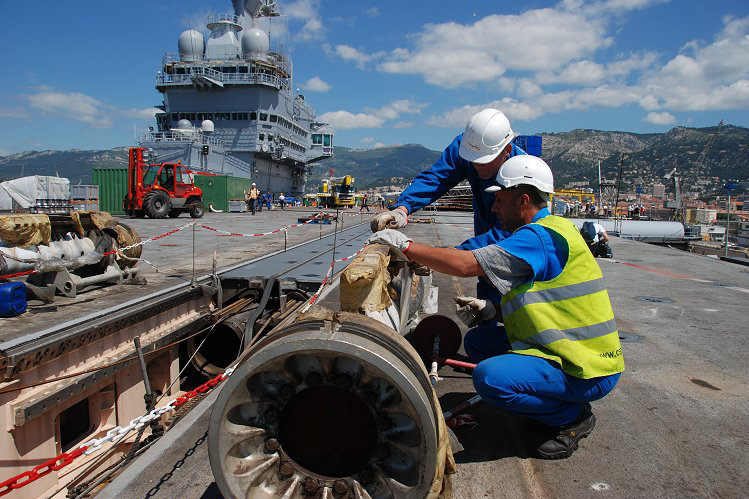 View on features of the aircarft catapult on the french aircraft carrier Charles de Gauille during a major overhaul and maintenance operation in the year 2008.